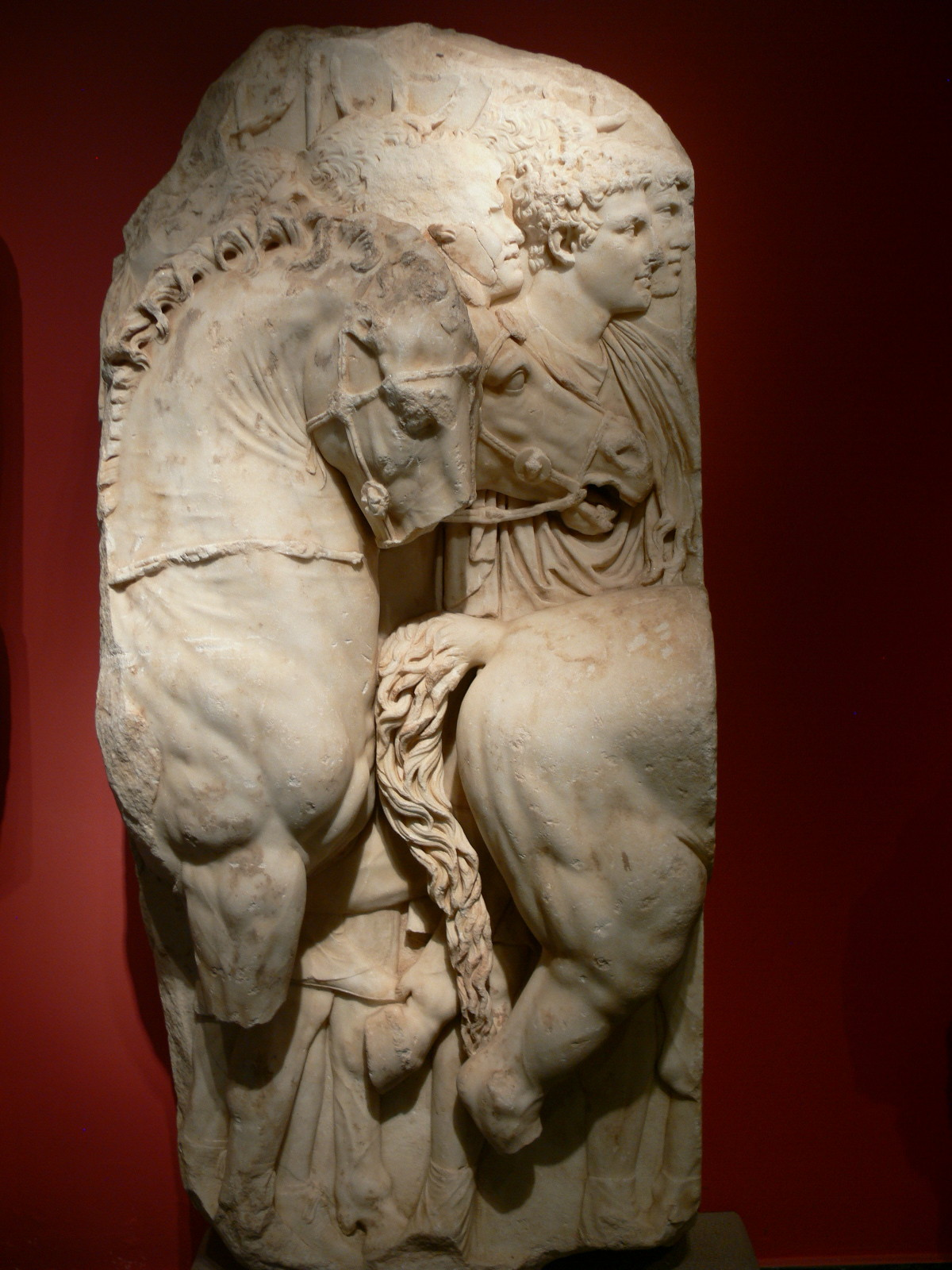 Antalya Archaeological Museum. Frieze from the Kenoptaph ( Limyra ) in honour of Gaius Caesar, grandson of Emperor Augustus, who died in Limyra 4 AD. The frieze probably showed a procession in commemoration of the Dioscourids 6 BC on occasion of accession of young people to the army.